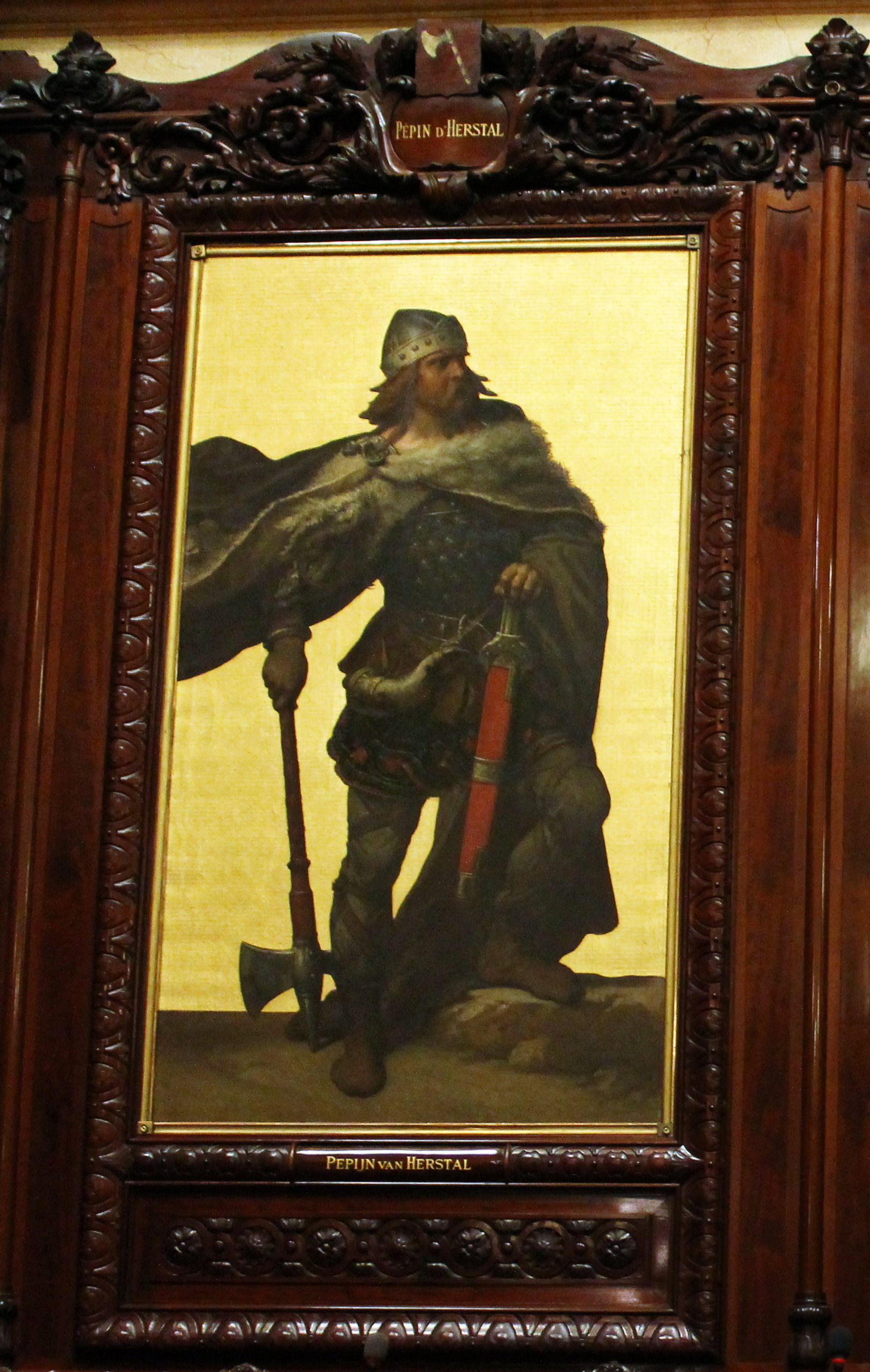 Wall painting of Pepin of Herstal by Louis Gallait (1810-1887) in the Belgian Senate in the Palais de la Nation in Brussels.